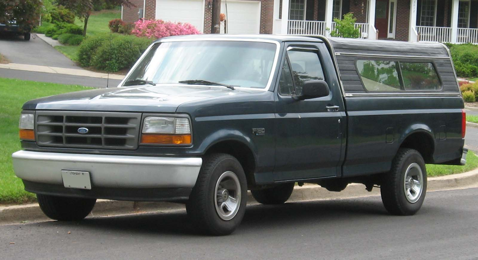 1992-1997 Ford F-150 photographed in USA.